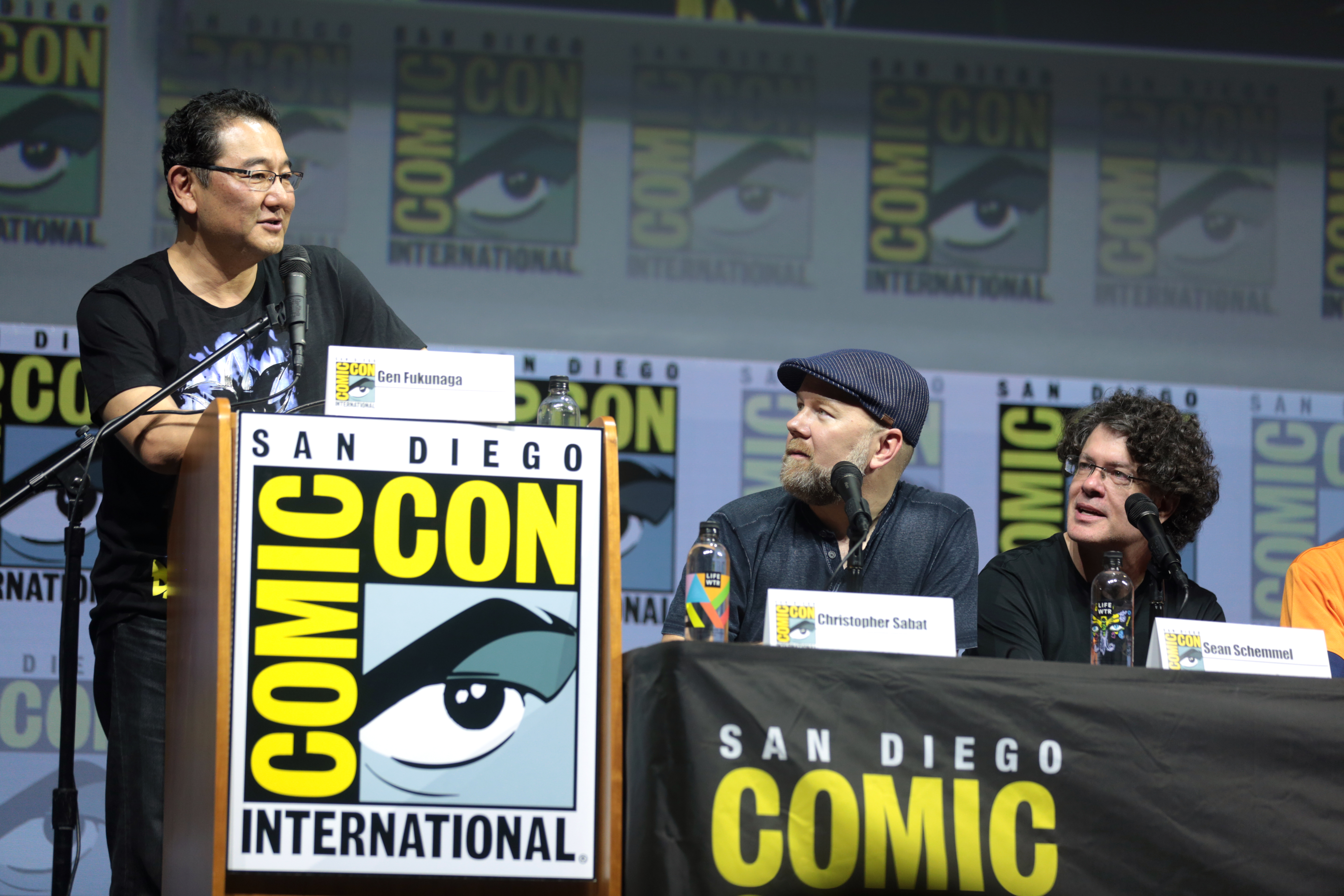 Gen Fukunaga, Christopher Sabat and Sean Schemmel speaking at the 2018 San Diego Comic Con International, for "Dragon Ball Super", at the San Diego Convention Center in San Diego, California.